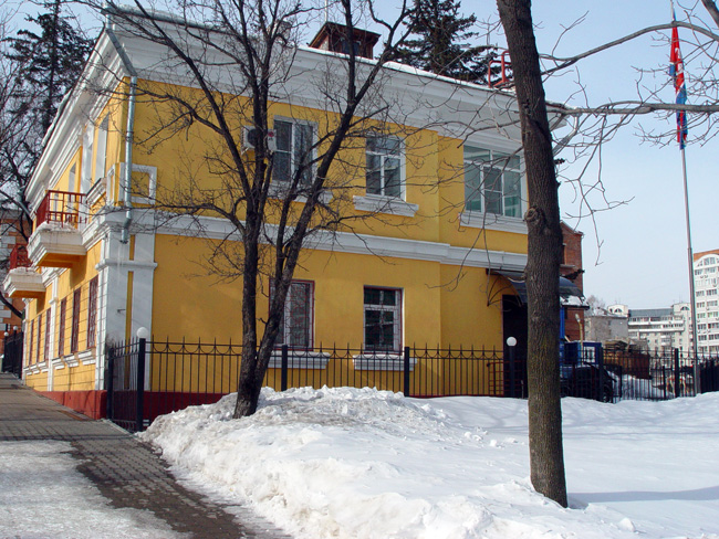 Consular Office of North Korea in Khabarovsk